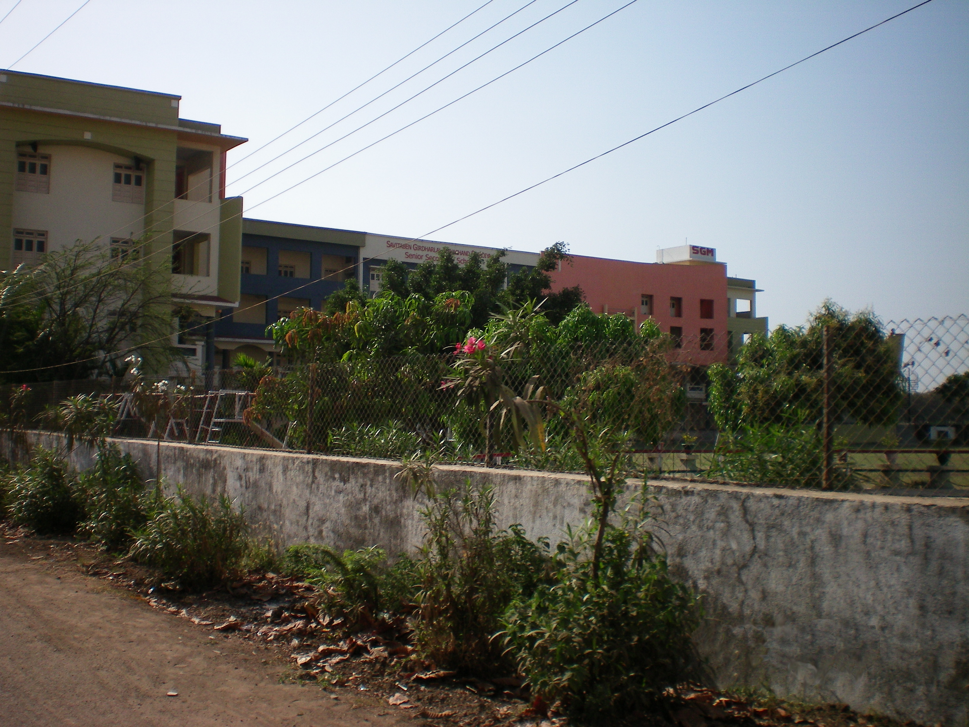 The S.G.M. Shiroiya School is a school in Navsari.